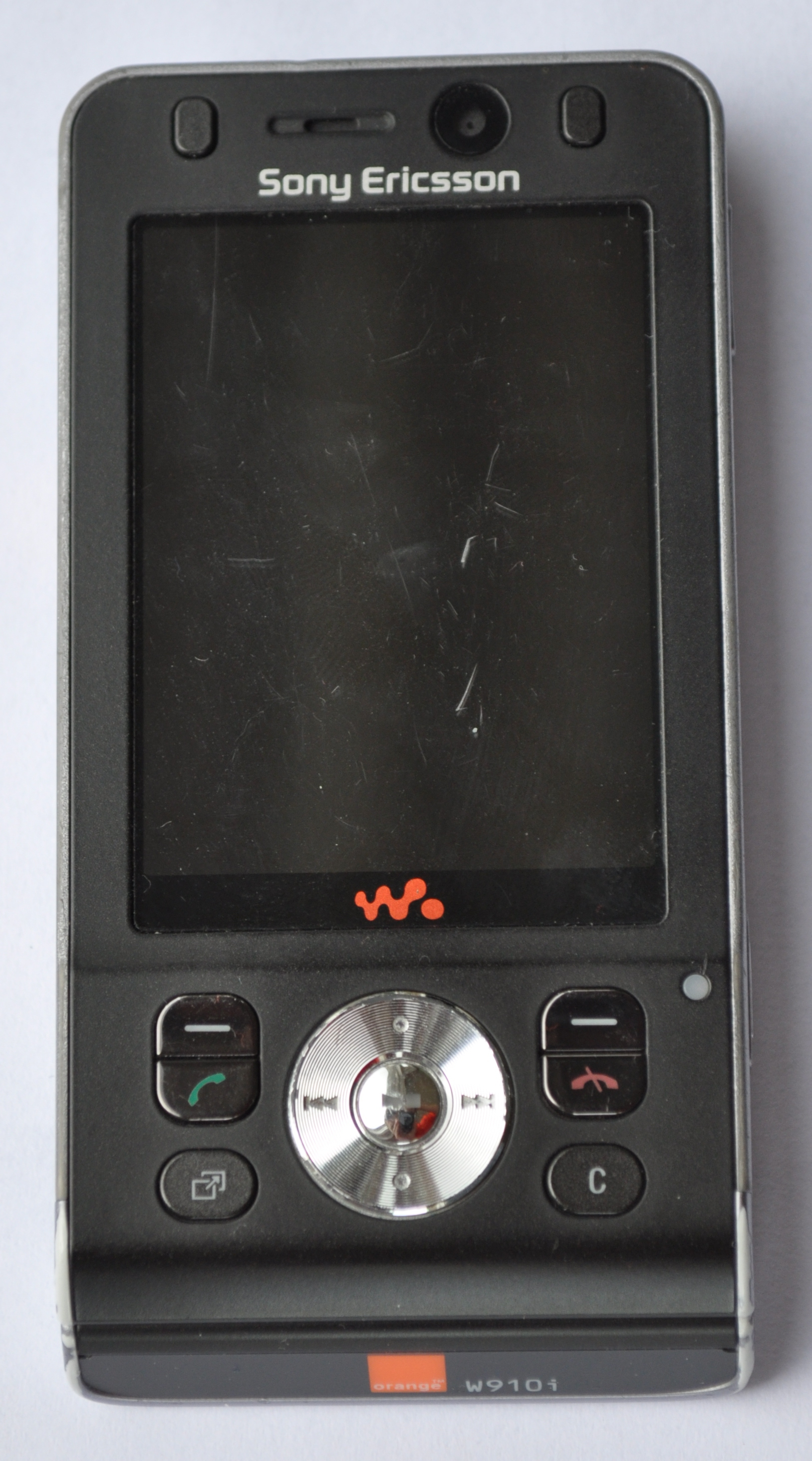 The Sony Ericsson w910i